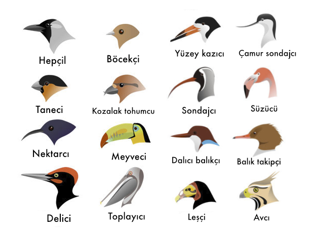 Comparison of bird beaks, displaying different shapes adapted to different feeding methods. Not to scale.